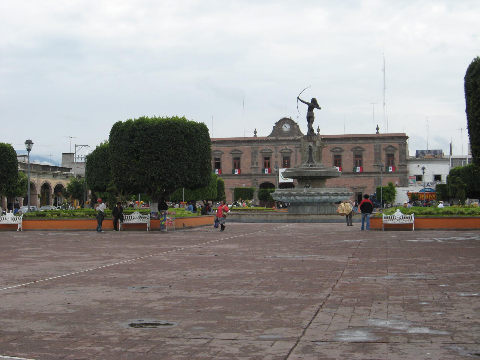 Main plaza or zocalo in Ixmiquilpan, Hidalgo State, Mexico. A statue of Diana is prominent